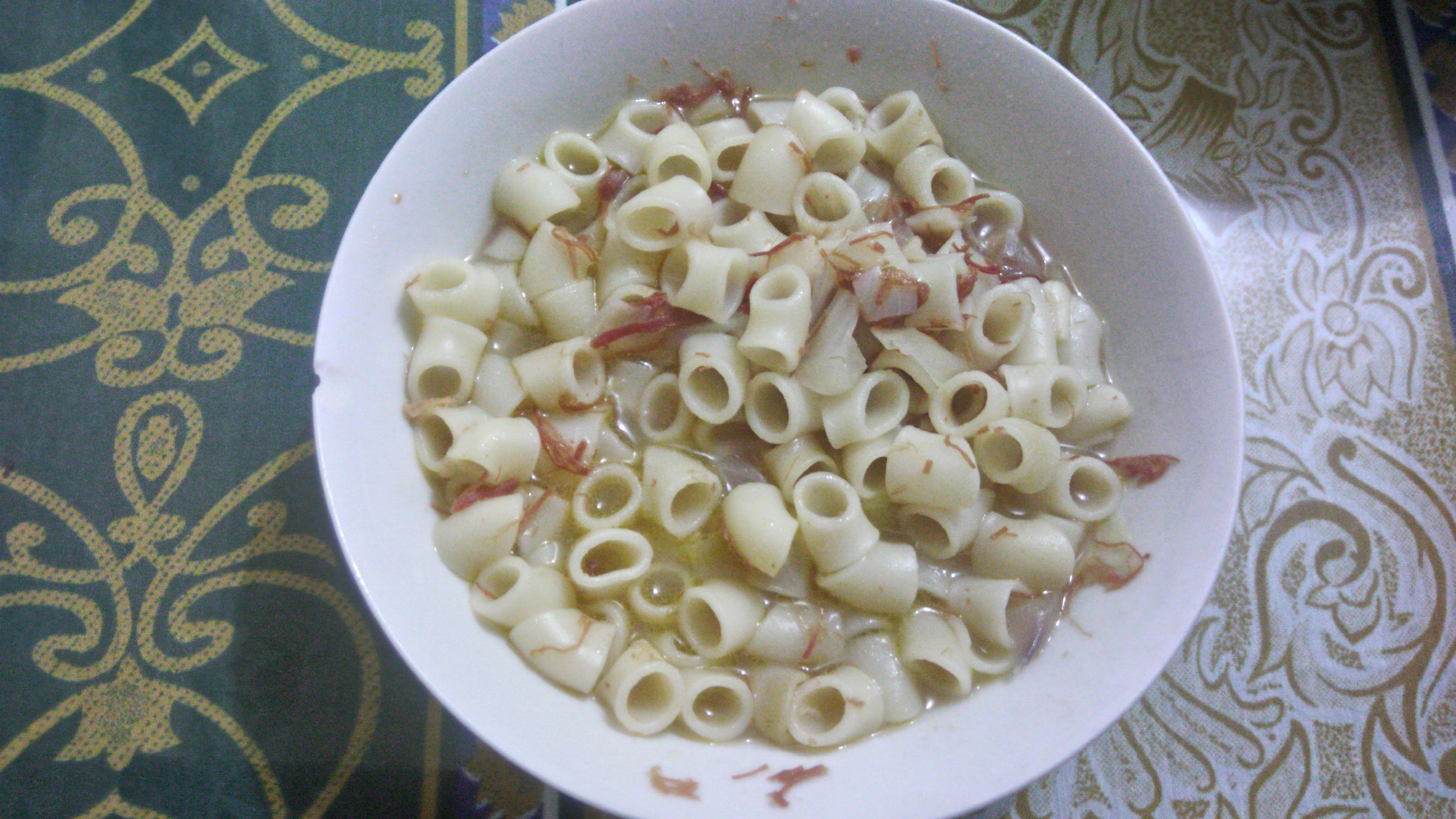 Sopas, a Filipino chicken noodle soup. Here, it is mixed with corned beef. Filipino: Sopas na may karne norte.